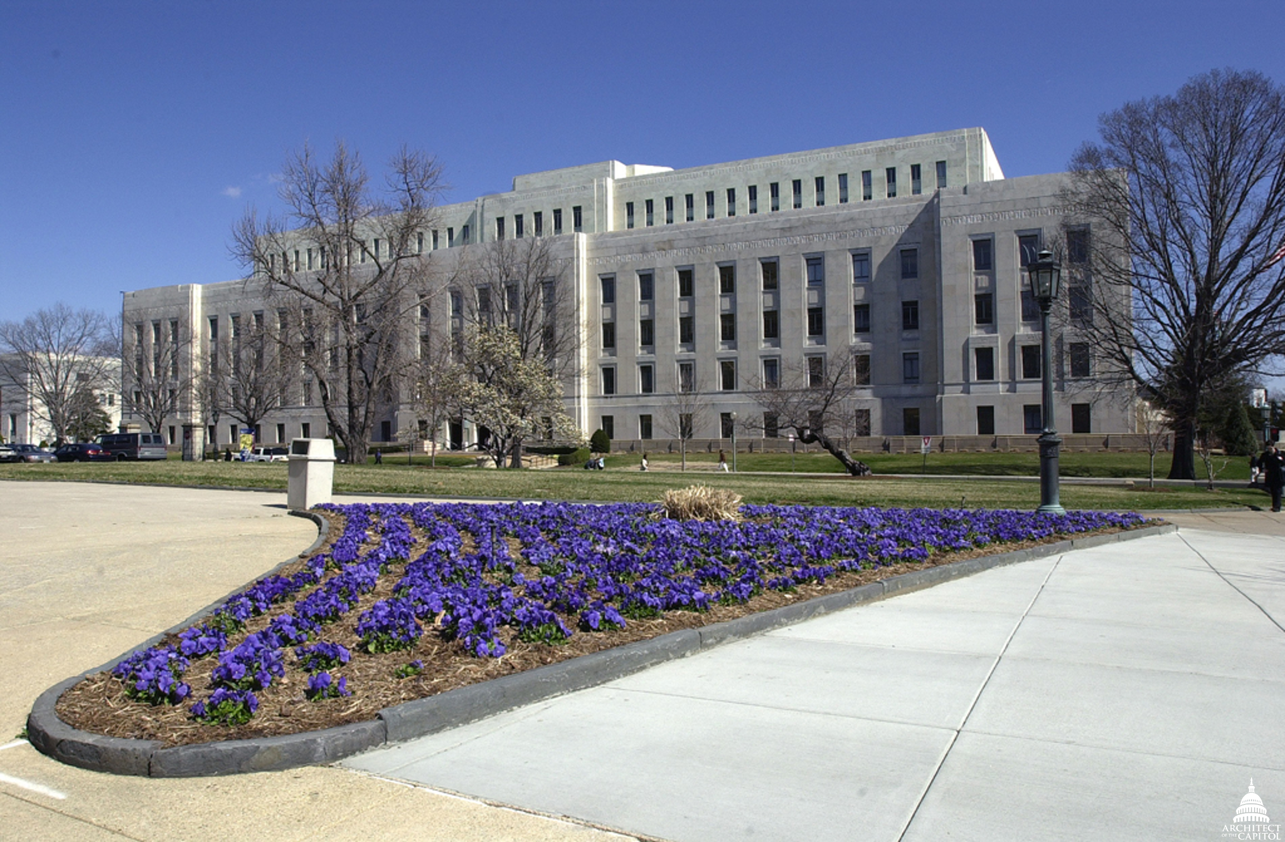 The second building constructed for the Library of Congress opened in 1939. For years it was known simply as "The Annex" before being named for President John Adams.